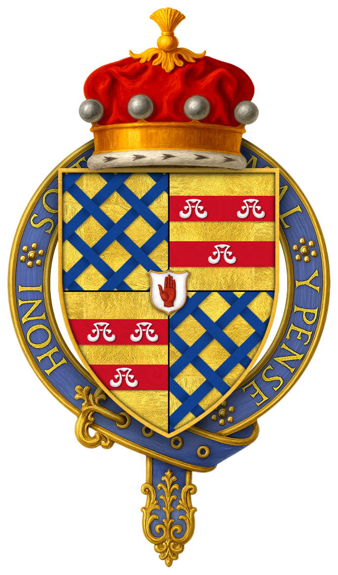 Coat of Arms of Michael Willoughby, 11th Baron Middleton, KG, as displayed on his Order of the Garter stall plate in St. George's Chapel, Windsor Castle - viz. Quarterly: 1st and 4th, Or, fretty azure (Willoughby of Eresby); 2nd and 3rd, Or, on two bars gules three water-bougets argent, two and one (Willoughby of Middleton)